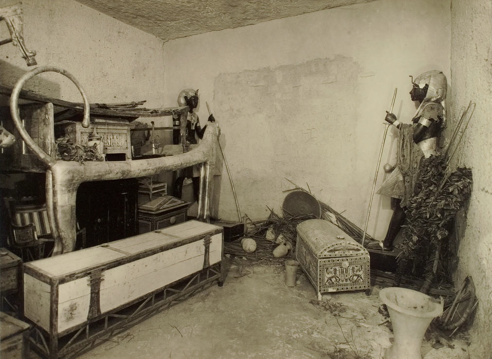 Harry Burton: Tutankhamun tomb photographs: a photographic record in 5 albums containing 490 original photographic prints ; representing the excavations of the tomb of Tutankhamun and its contents. Vol. 2